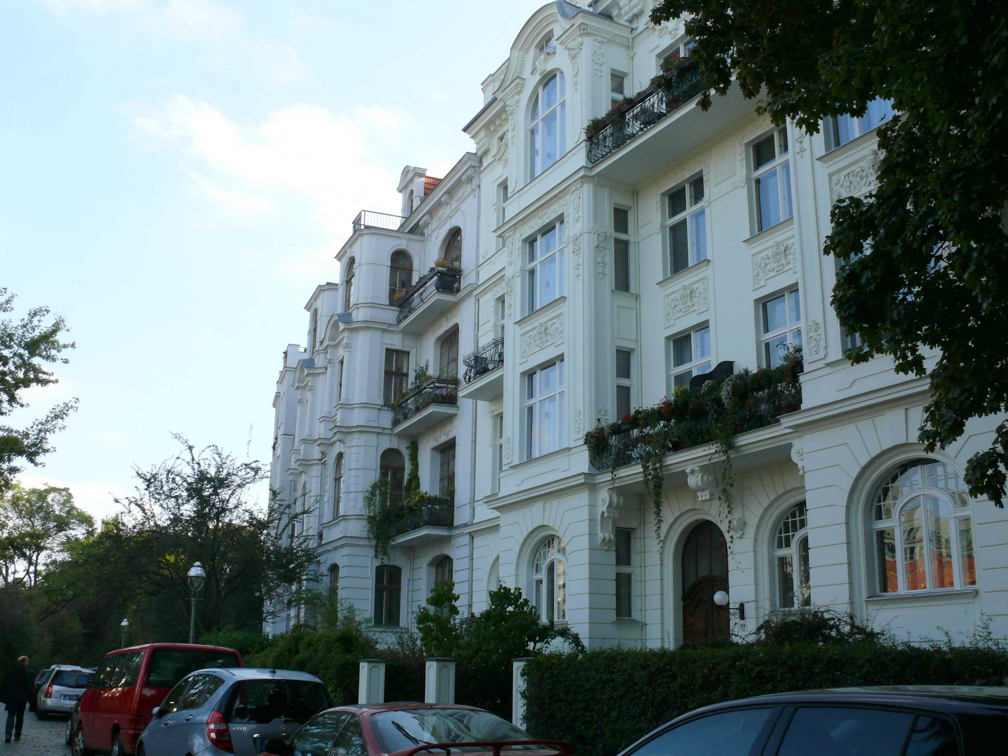 Berlin-Hansaviertel Hosteiner Ufer